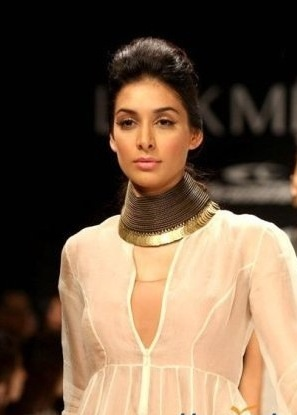 Preeti walking for a fashion week